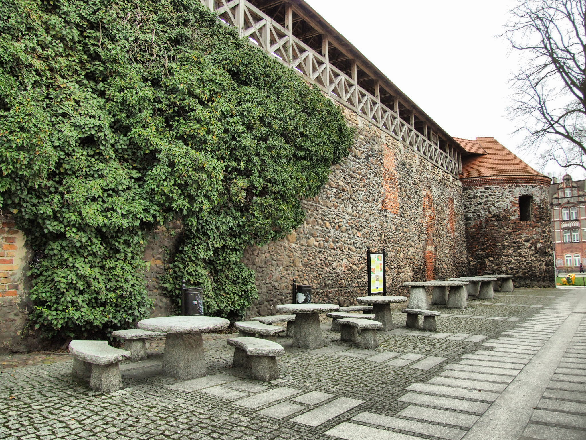 Żary, defensive wall